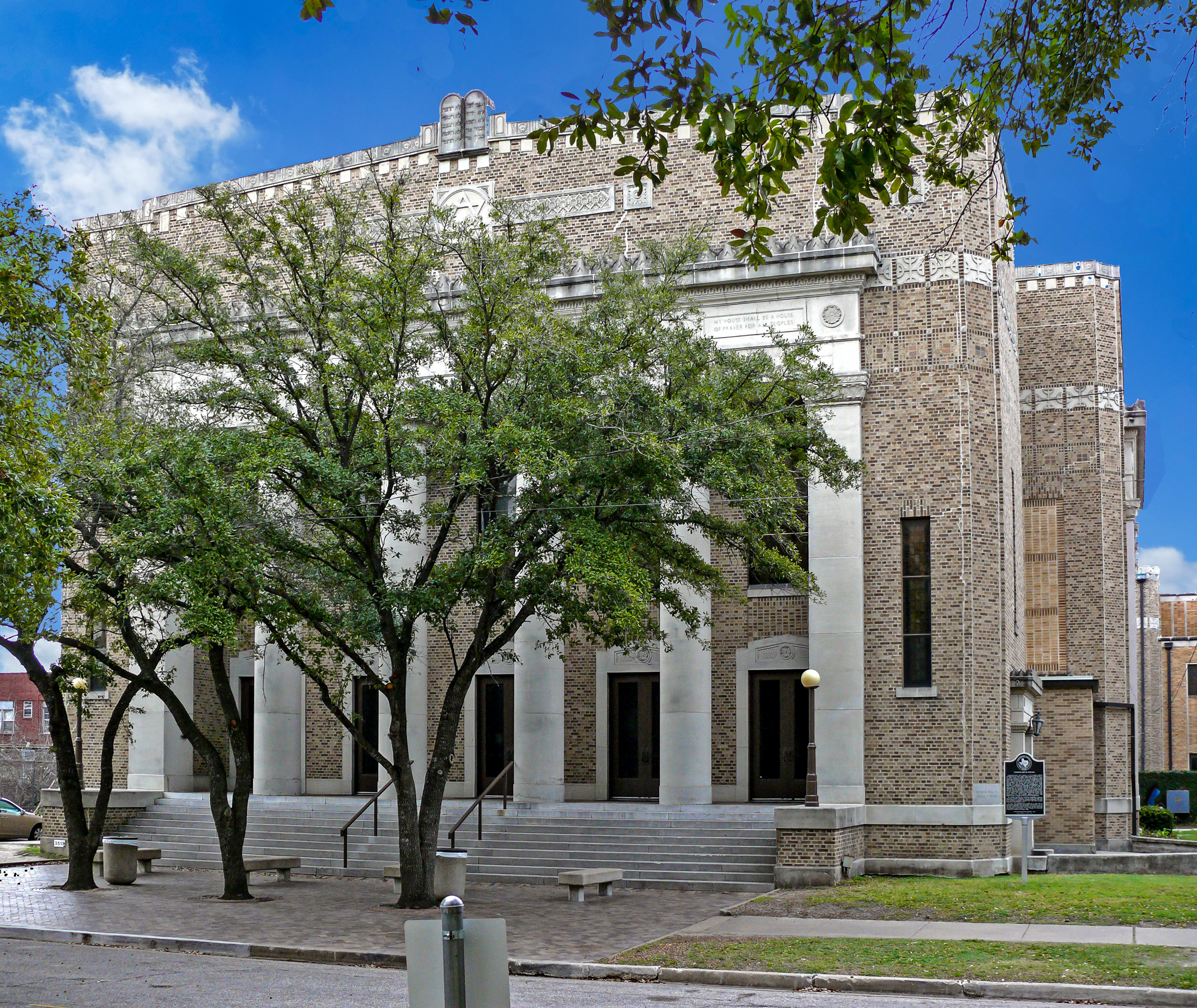 Congregation Beth Israel is the oldest Jewish congregation in Texas. Early Jewish families that settled in the area formed the Hebrew Benevolent Society in 1844, under the leadership of Lewis Levy. By 1854, seventeen adults organized themselves into the Hebrew Congregation Beth Israel, and the congregation received a state charter in 1859. Members first met in a small room on Austin Street between Texas and Prairie, but later moved to a frame building on Labranch Street. The congregation’s first permanent synagogue was dedicated on Crawford Street in 1874. A larger synagogue followed in 1908, but waves of immigration, the oil boom and the deepening of the ship channel brought explosive growth to the congregation, and the need for another, larger building became urgent. The new synagogue, located at the corner of Holman and Austin Streets, was designed by congregation member and noted architect Joseph Finger. When the temple was dedicated in 1925, the Houston Chronicle called it “the finest house of worship of its kind in the entire south.” The temple’s architecture combines traditional classical and near eastern elements, such as large columns and entablatures, in a stylized art moderne style. The brick and limestone building’s square plan and high facades enhance its monumental scale. In 1969, the congregation moved to a new site in southwest Houston and transferred the property to the Houston Independent School District. The facility served as the first home of Houston’s High School for the Visual and Performing Arts before it was passed to Houston Community College in the early 1980s.